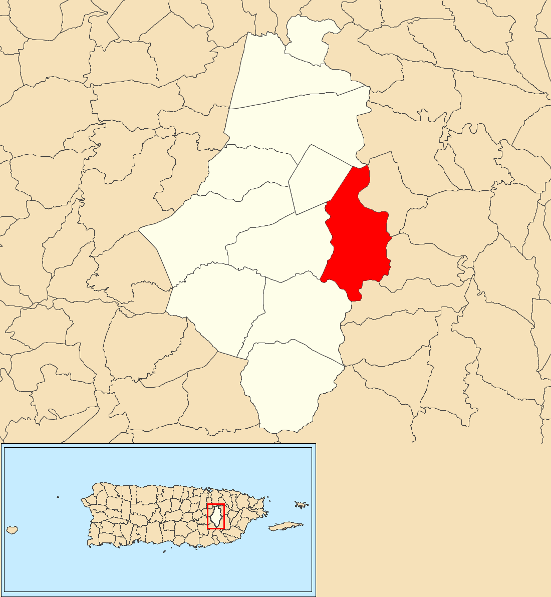 Tomás de Castro, Caguas, Puerto Rico locator map